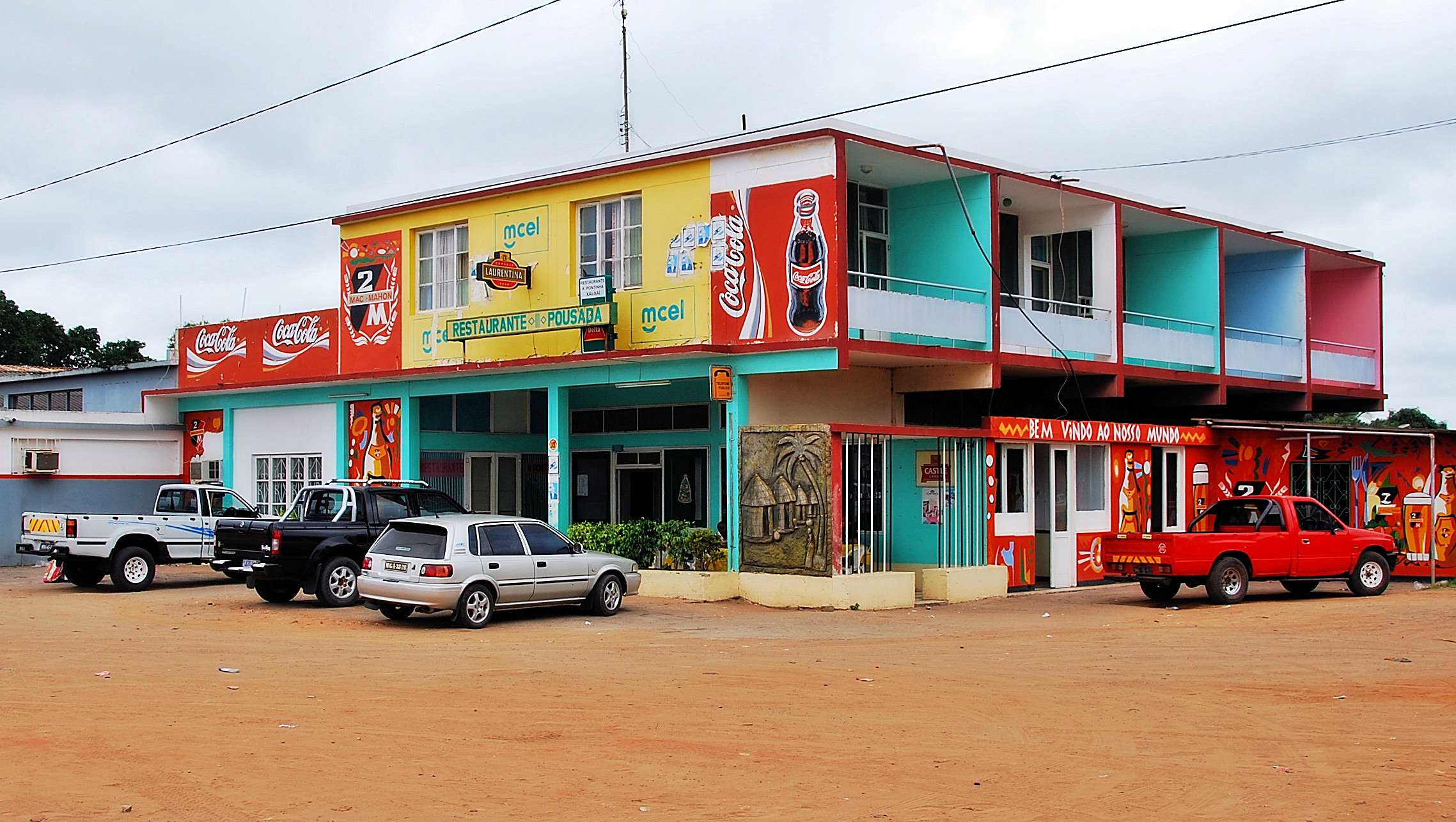 Restaurant and lodging in Xai-Xai, Mozambique